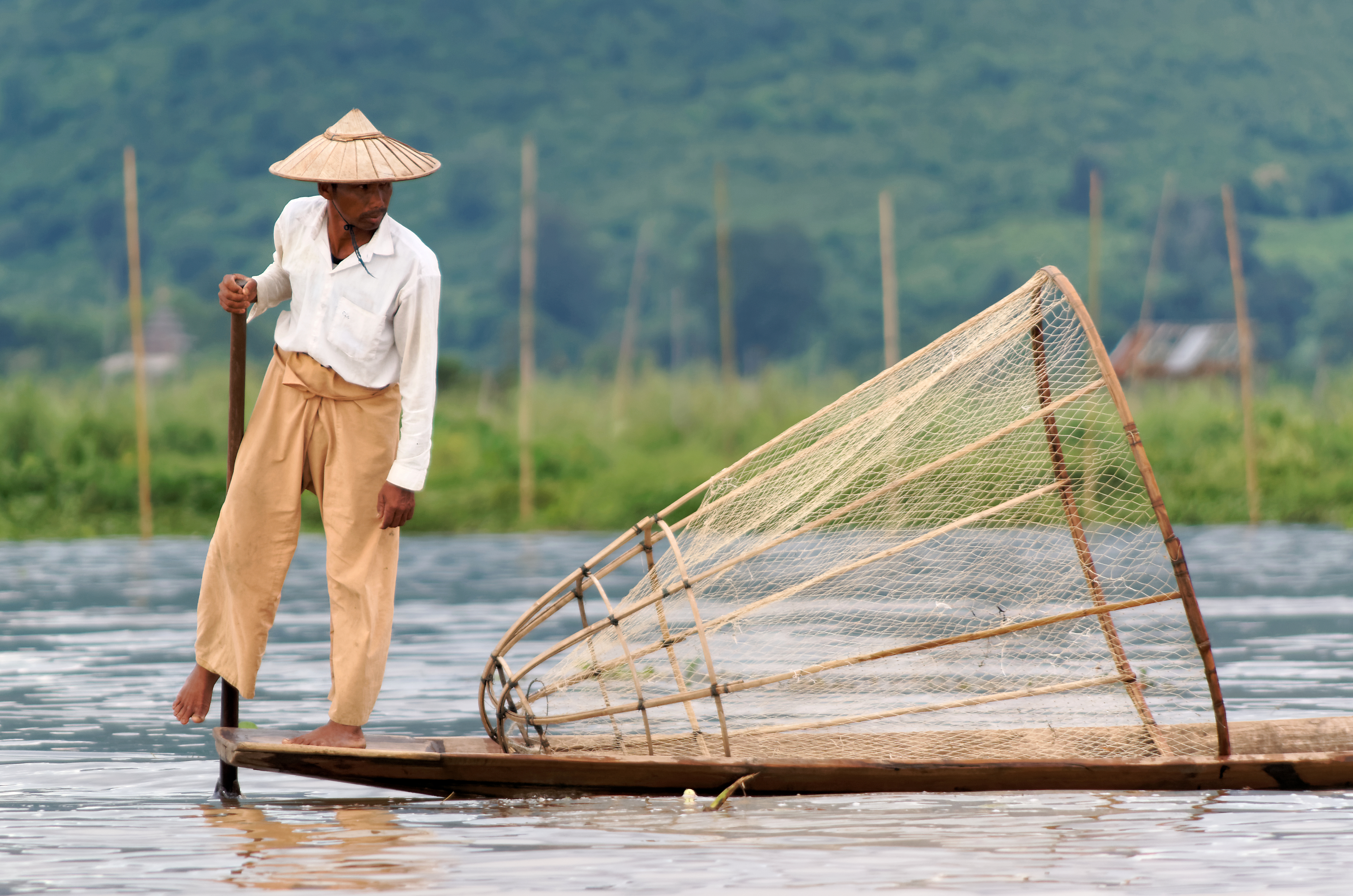 Fisherman on Inle Lake in Myanmar